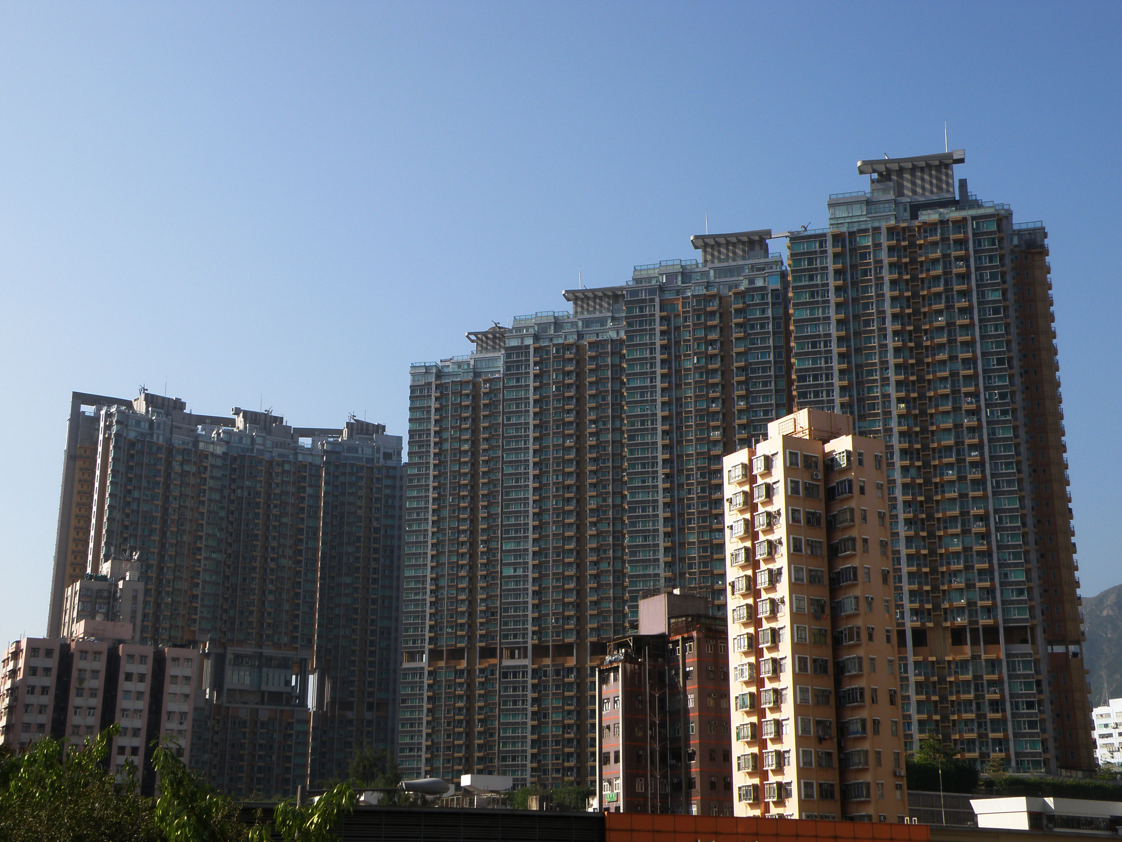 Century Gateway in Tuen Mun, Hong Kong.